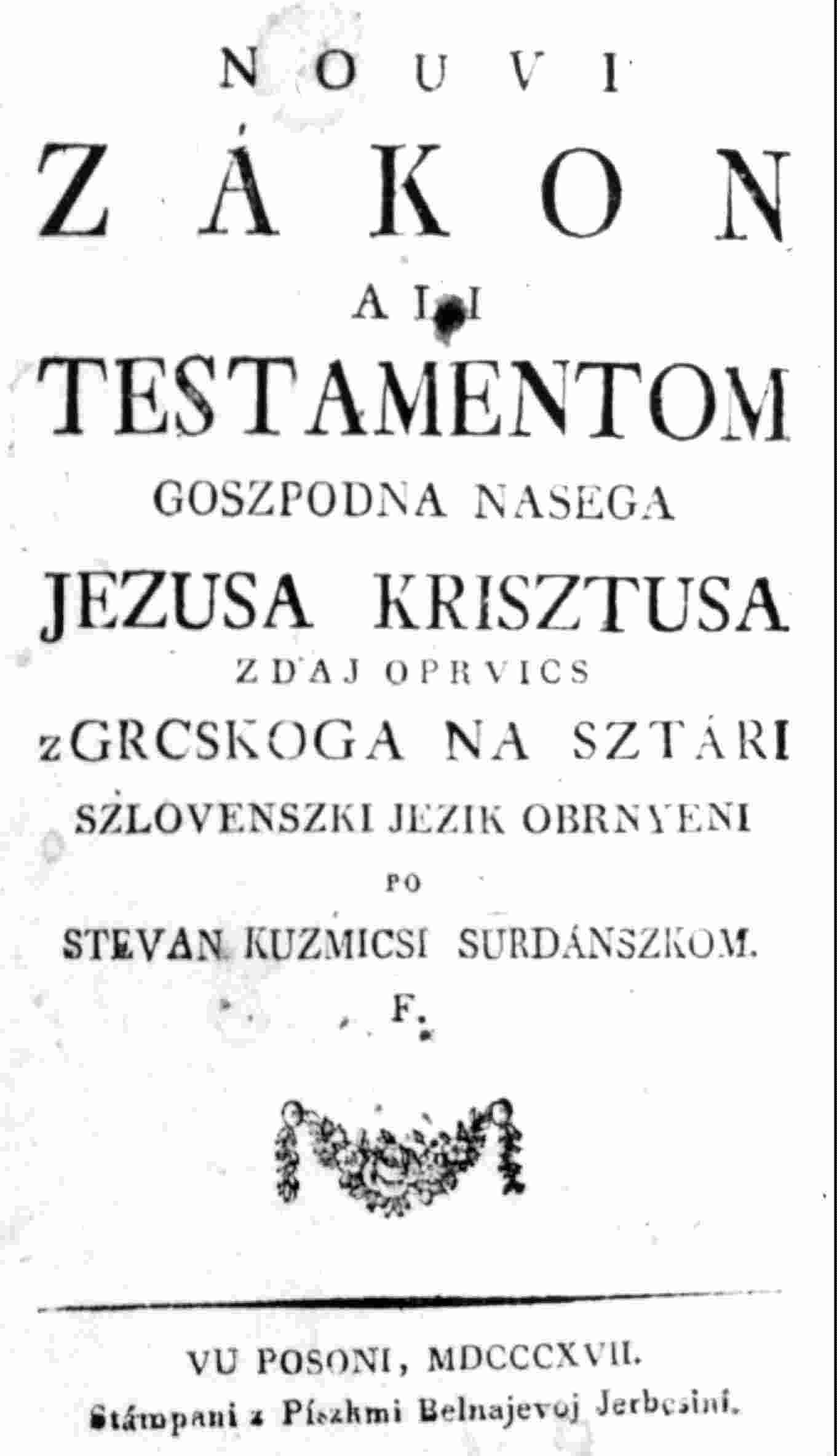 The Evangelium of István Küzmics